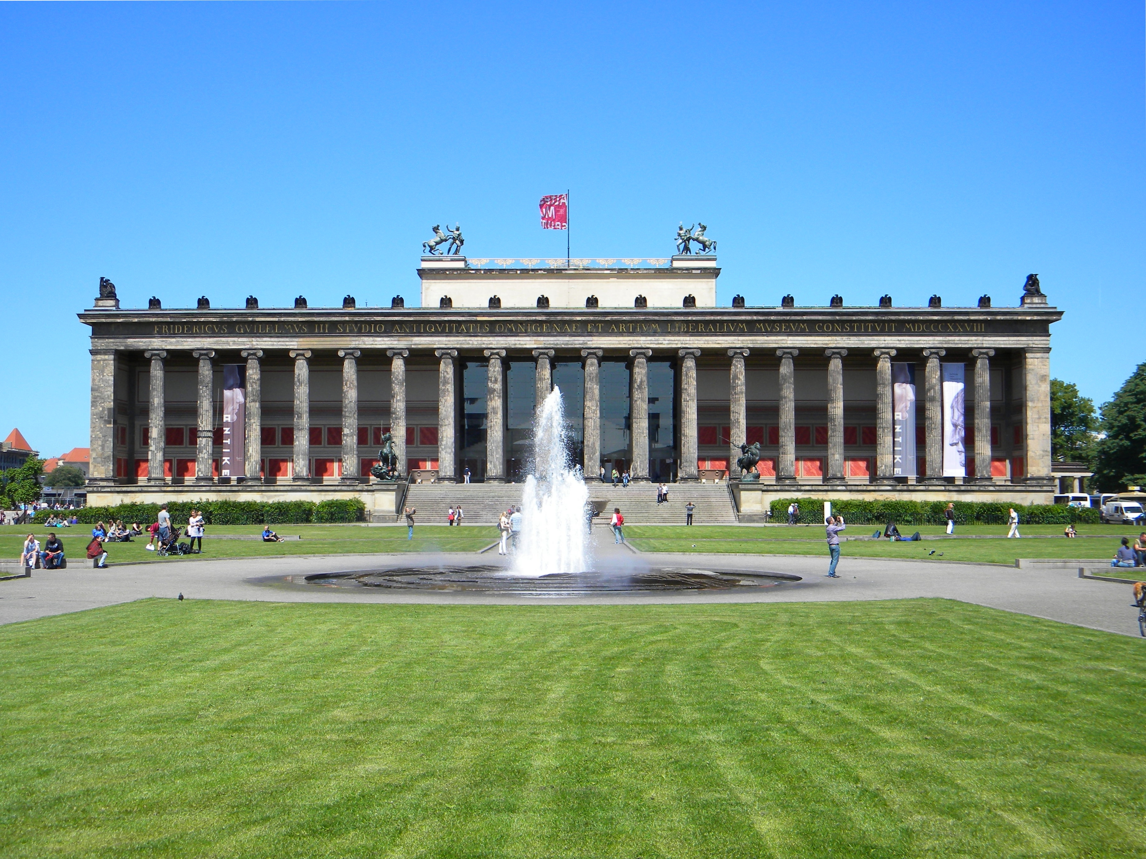 Altes Museum in Berlin.